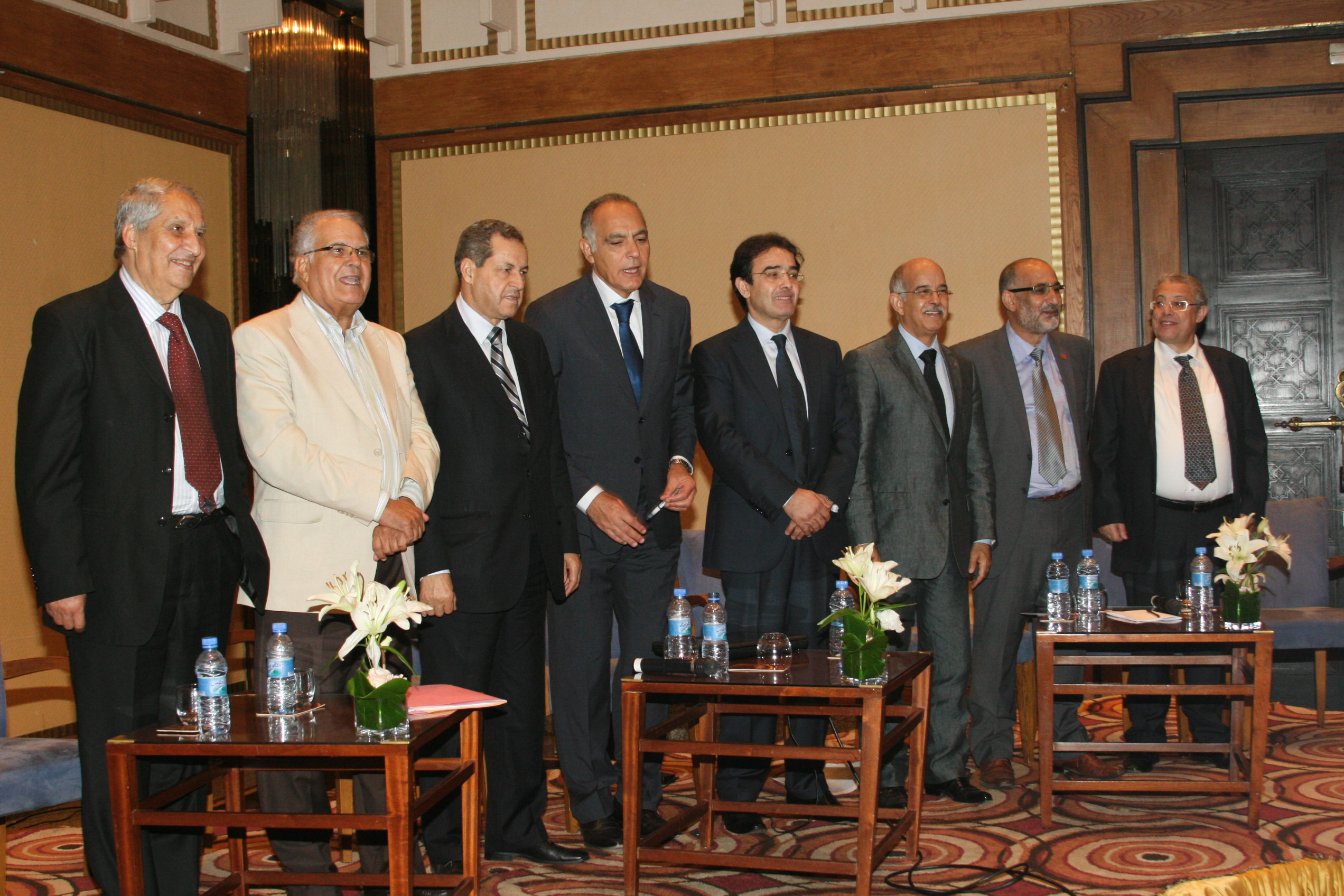 Party leaders of the 2011 Moroccan elections Coalition